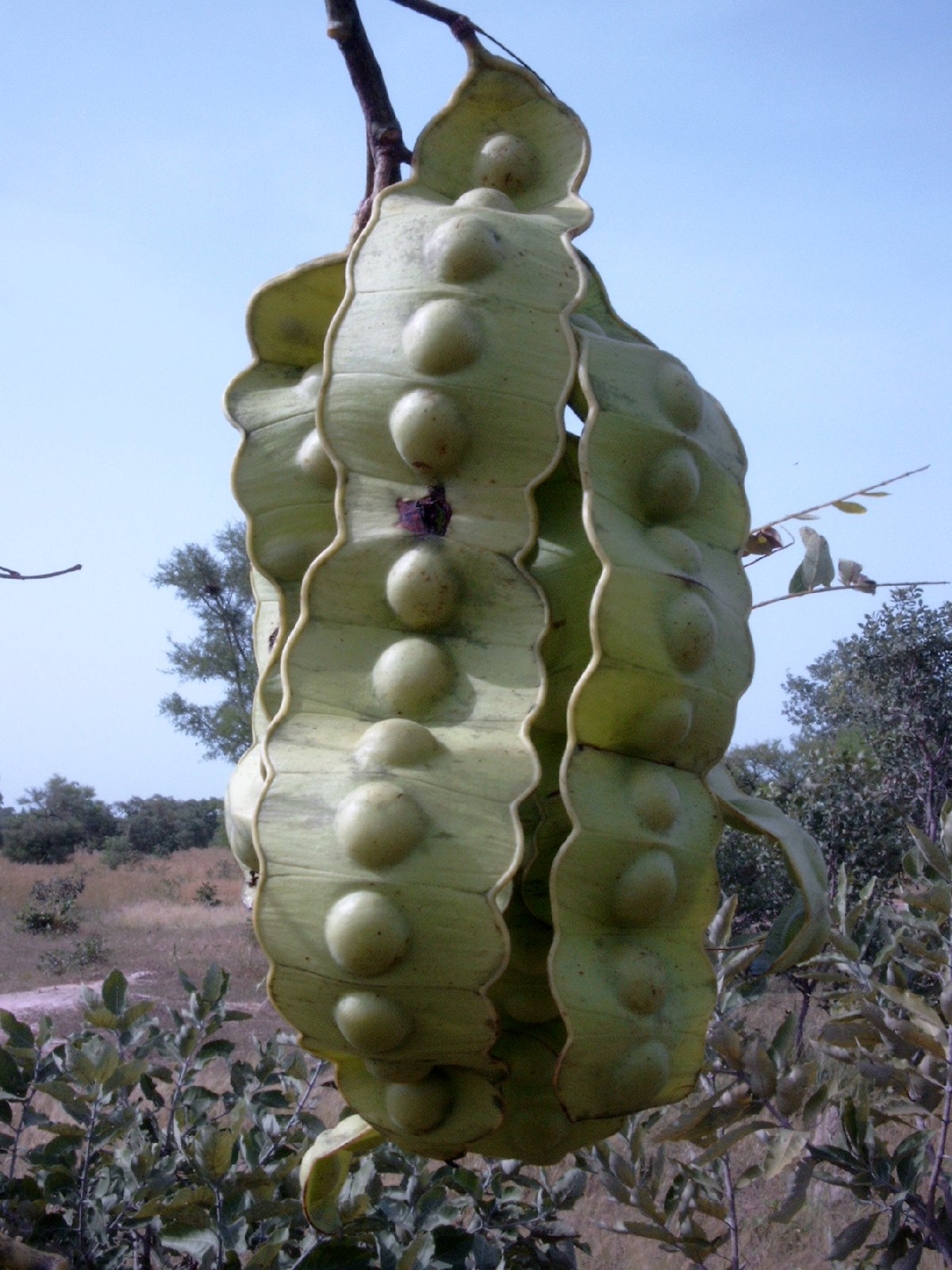 fruits of Entada africana, Burkina Faso.